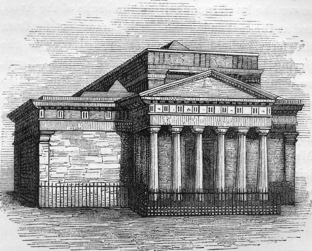 Engraving of the Royal Literary Institution, Bath